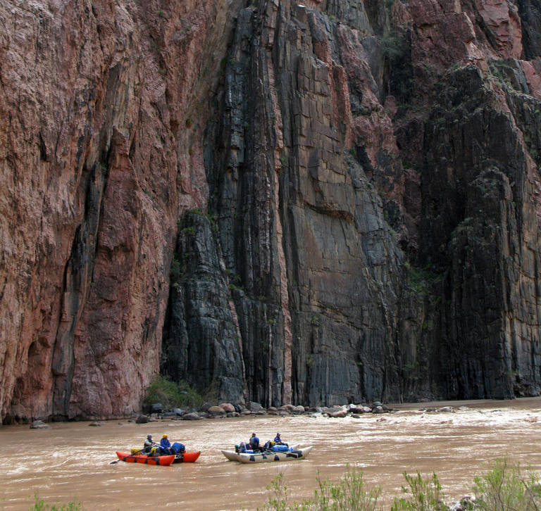 A rafting party passes below a sheer cliff of Vishnu Schist